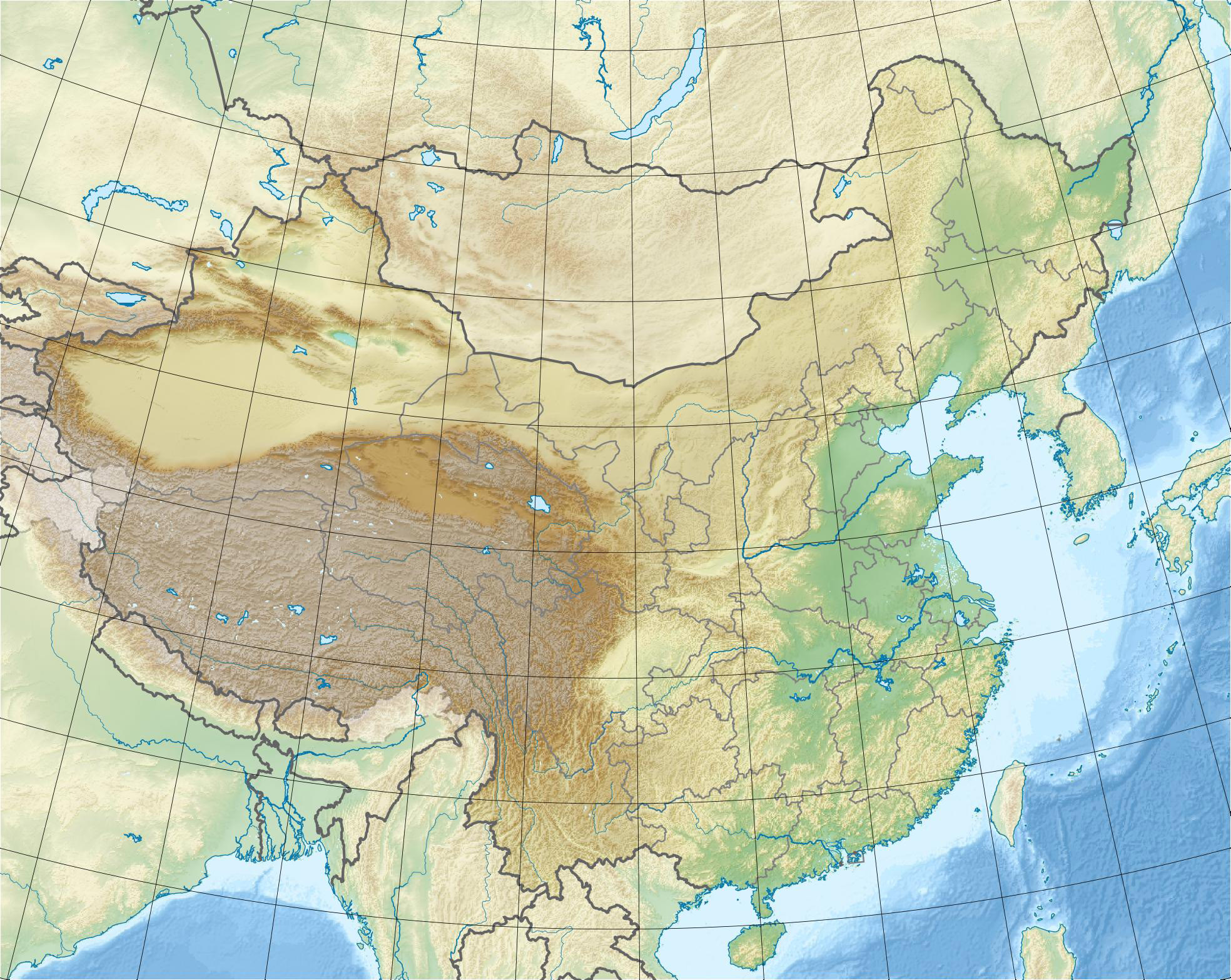 Location map of China. EquiDistantConicProjection : Central parallel : * N: 36.0° N Central meridian : * E: 104.0° E Standard parallels: * 1: 30.0° N * 2: 42.0° N Latitudes on the central meridian : * top: 57.0° E * center: 37° 29° N * bottom: 17.96° N Made with Natural Earth. Free vector and raster map data @ .